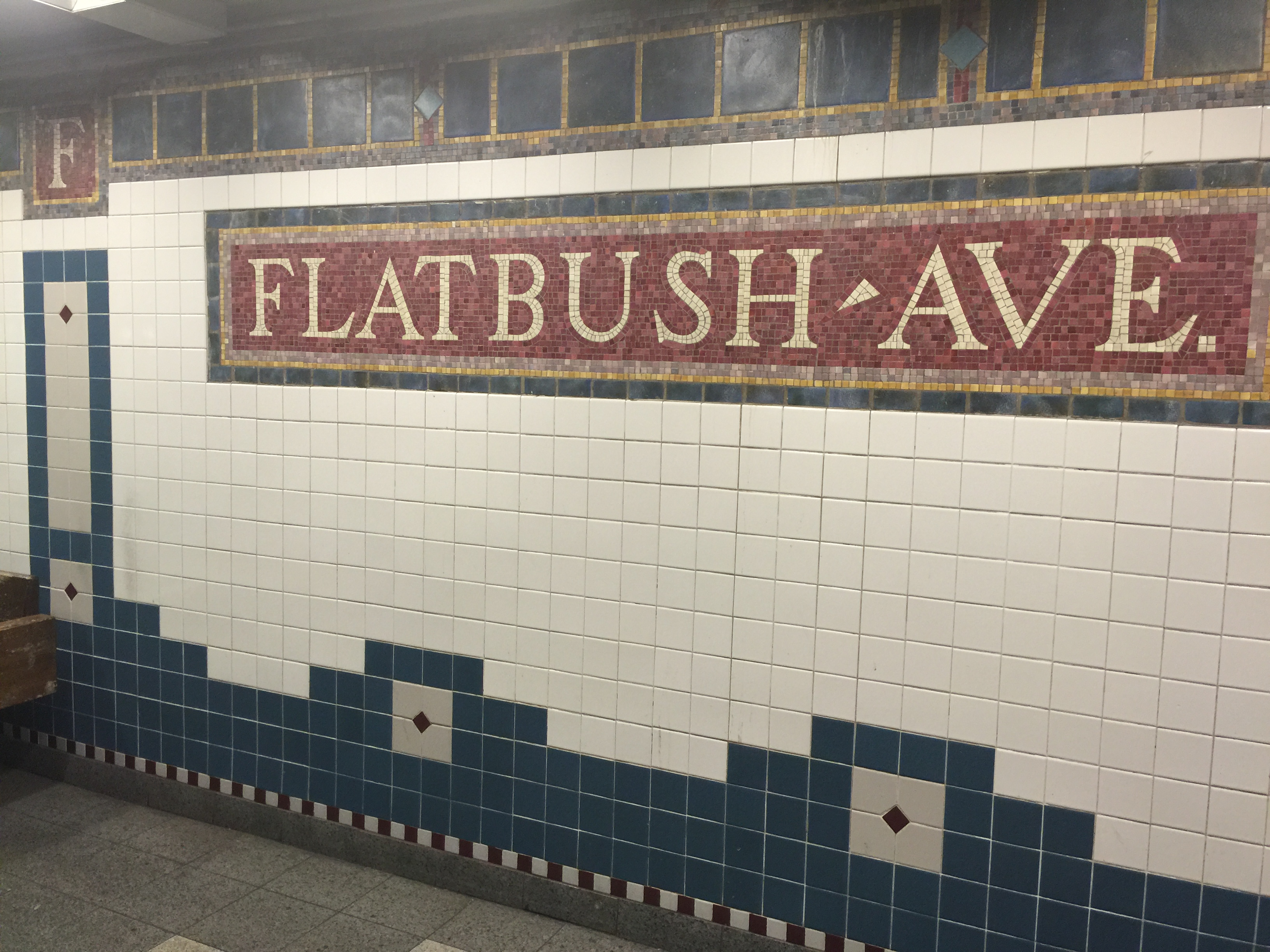 Tile work